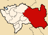 Locator map of the Satipo Province in the Junín Region, Peru